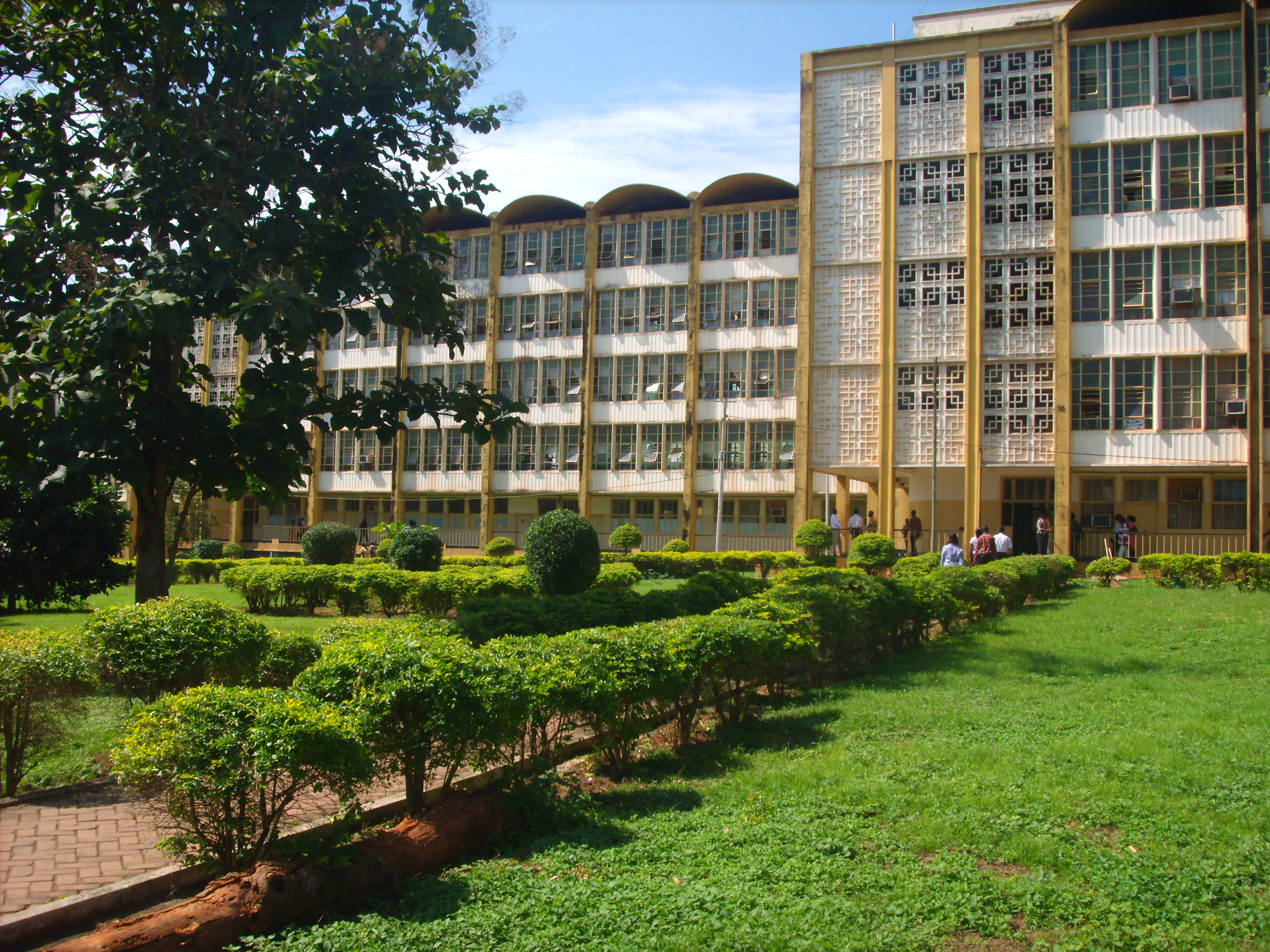 Komfo Anokye Teaching Hospital (KATH) in Kumasi, Ashanti Region, Ghana.